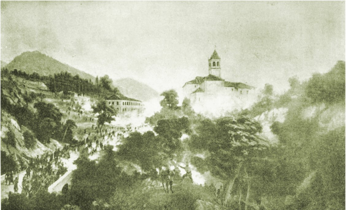 Second Italian War of Independence. Garibaldi's Hunters of the Alps repel the attack the Austrian division Urban and defeat at the Battle of San Fermo, 27 May 1859. Lithograph of the time reduced and modified.